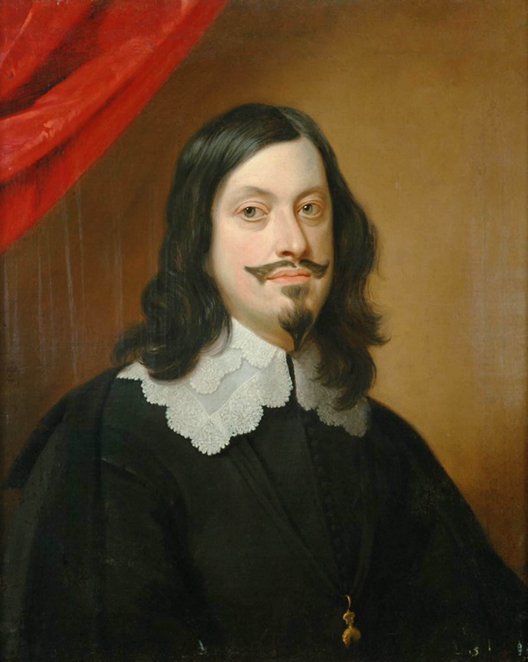 Ferdinand-III